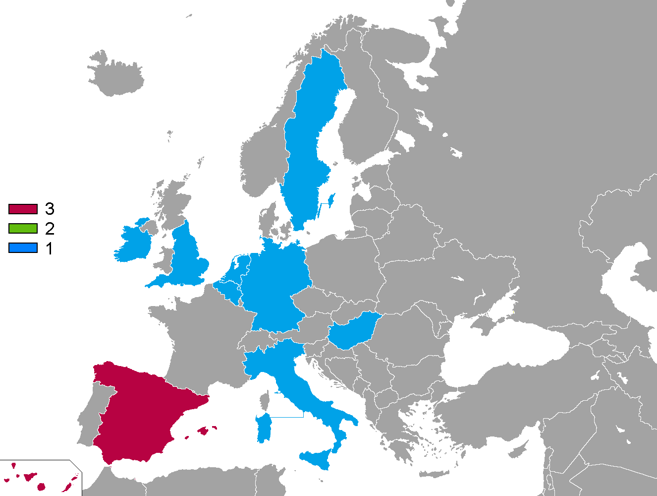 Map of the winners of Mr gay Europe.